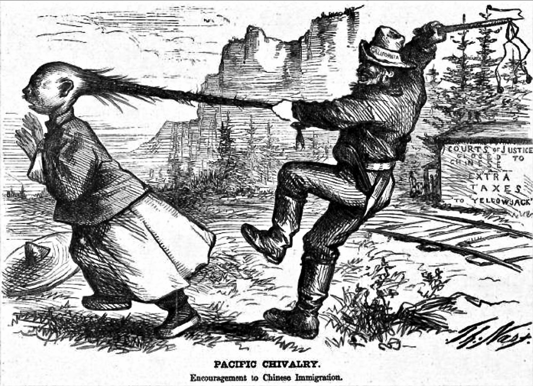 Cartoon by Thomas Nast (1840–1902) named Pacific Chivalry – Encouragement to Chinese Immigration (engraved wood), published in Harper’s Weekly, 7 August 1869, p. 512.